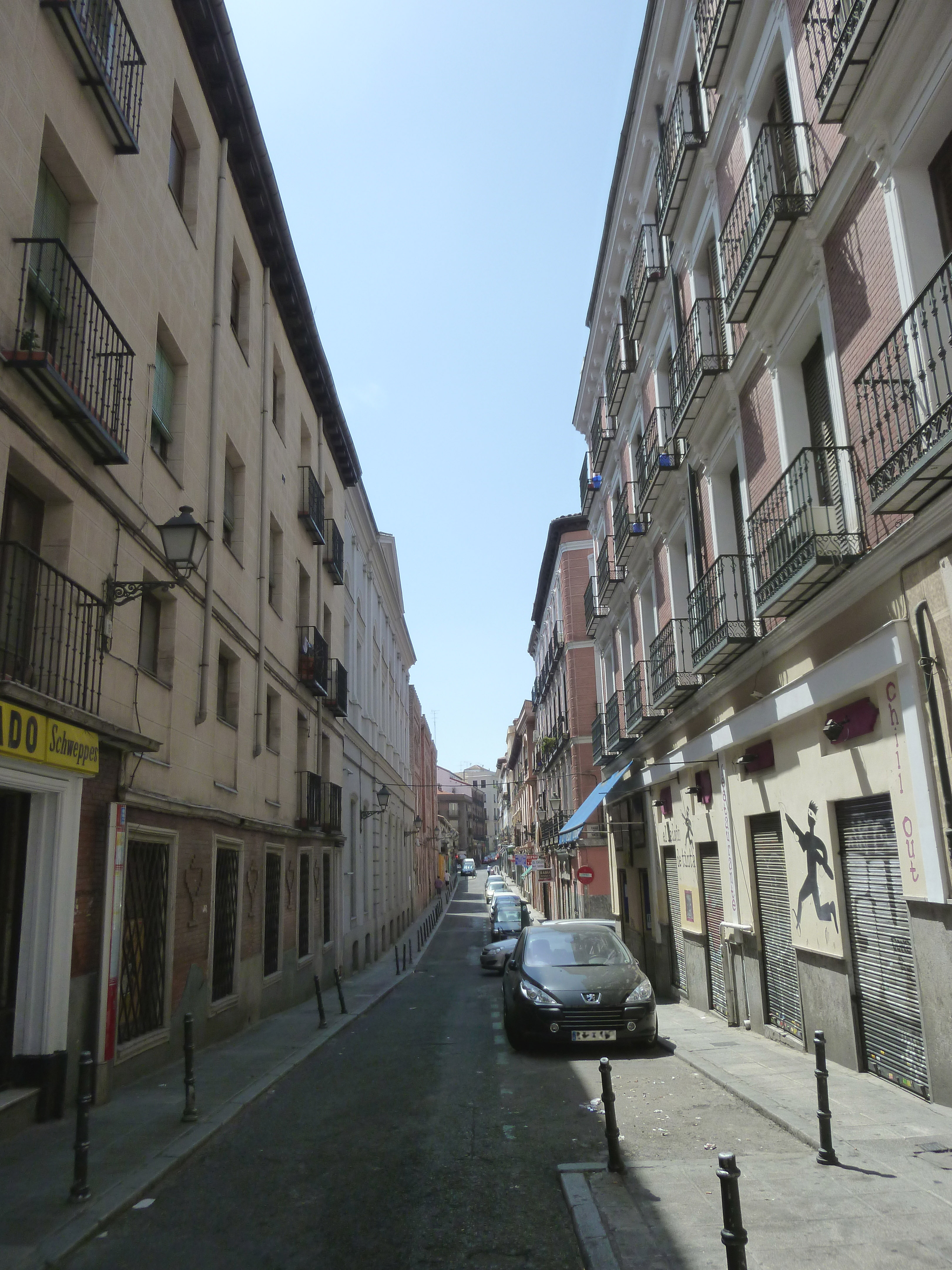 View from Calle del Noviciado (street) in Centro district in Madrid (Spain).